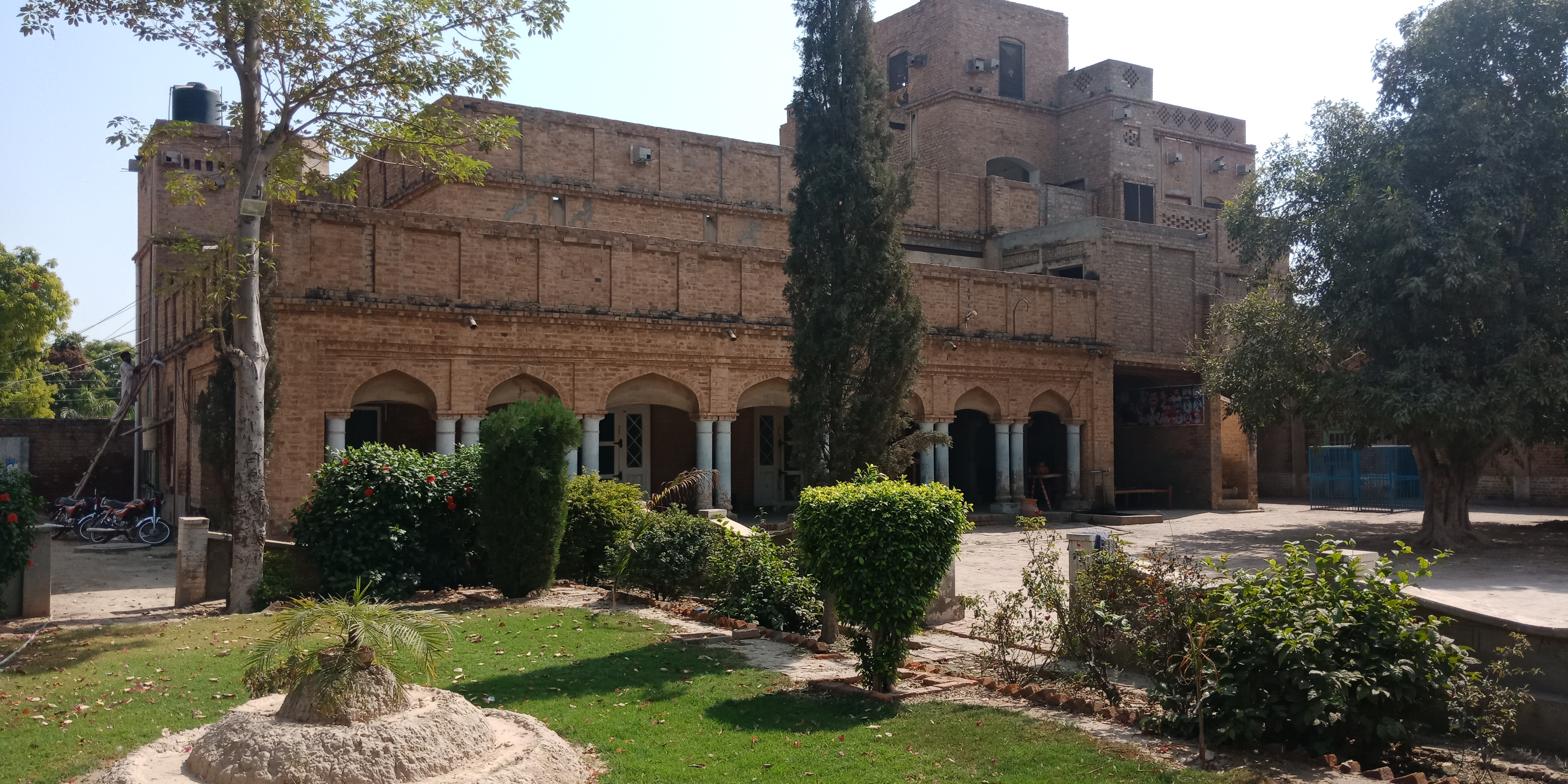 Mumtaz Manzil: Dera Mian Farrukh Mumtaz Manika